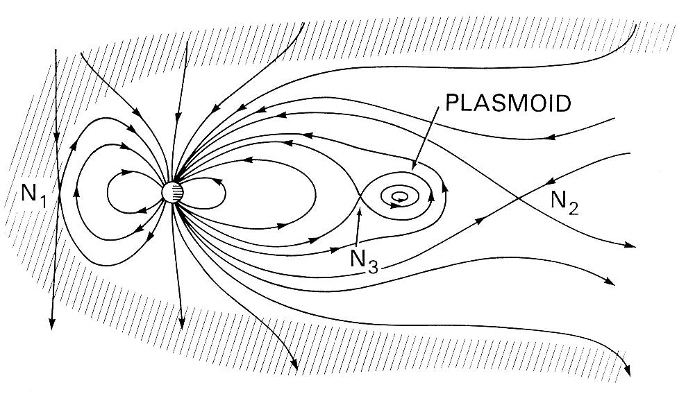 Schematic of the formation of a plasmoid in the Earth's magnetotail, from "A Brief History of Magnetospheric Physics during the Space Age" by D.P. Stern. The article was produced by a US Govt. employee and is therefore in the public domain. This article can be found in (1996). "A brief history of magnetospheric physics during the space age". Reviews of Geophysics 34 (1): 1. Removed from the following pages: Magnetosphere Magnetospheric convection and magnetic storms --OrphanBot 09:37, 3 April 2006 (UTC)